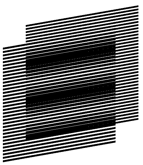 Line Moire - Figure 5. Identical inclination of layer lines